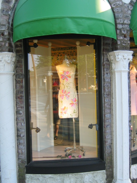 Guess you had to have been there but this was a loud shiny sequined dress part of the enclave of high fashion boutiques that populate main street in South Hampton ( What a parade! there were folks dressed with this type of dress walking the main drag to cocktail parties! with "questionable" (faux maybe)tans & a lot of plastic surgery & I swear; cover bands in parks doing Barry Manilow covers! oh yes let's not forget the ascots even on the dogs!)